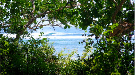 money trees surfing g land